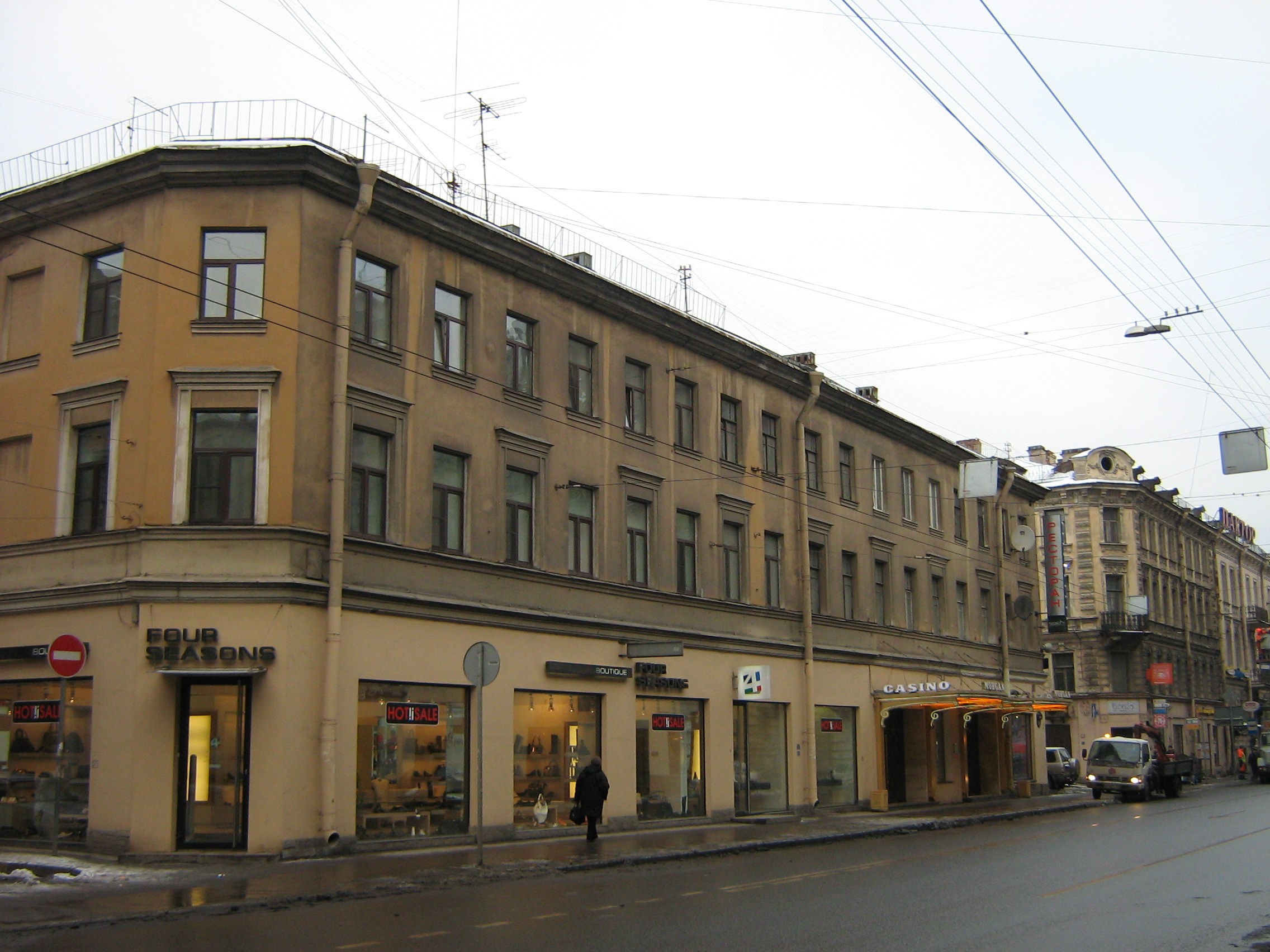 30, Bolshoy Prospect P.S. (Grand avenue of the Petrograd side), Saint-Petersburg, Russia.